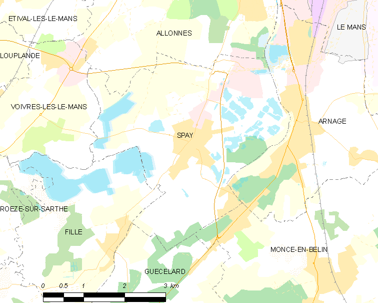 Map of French municipality